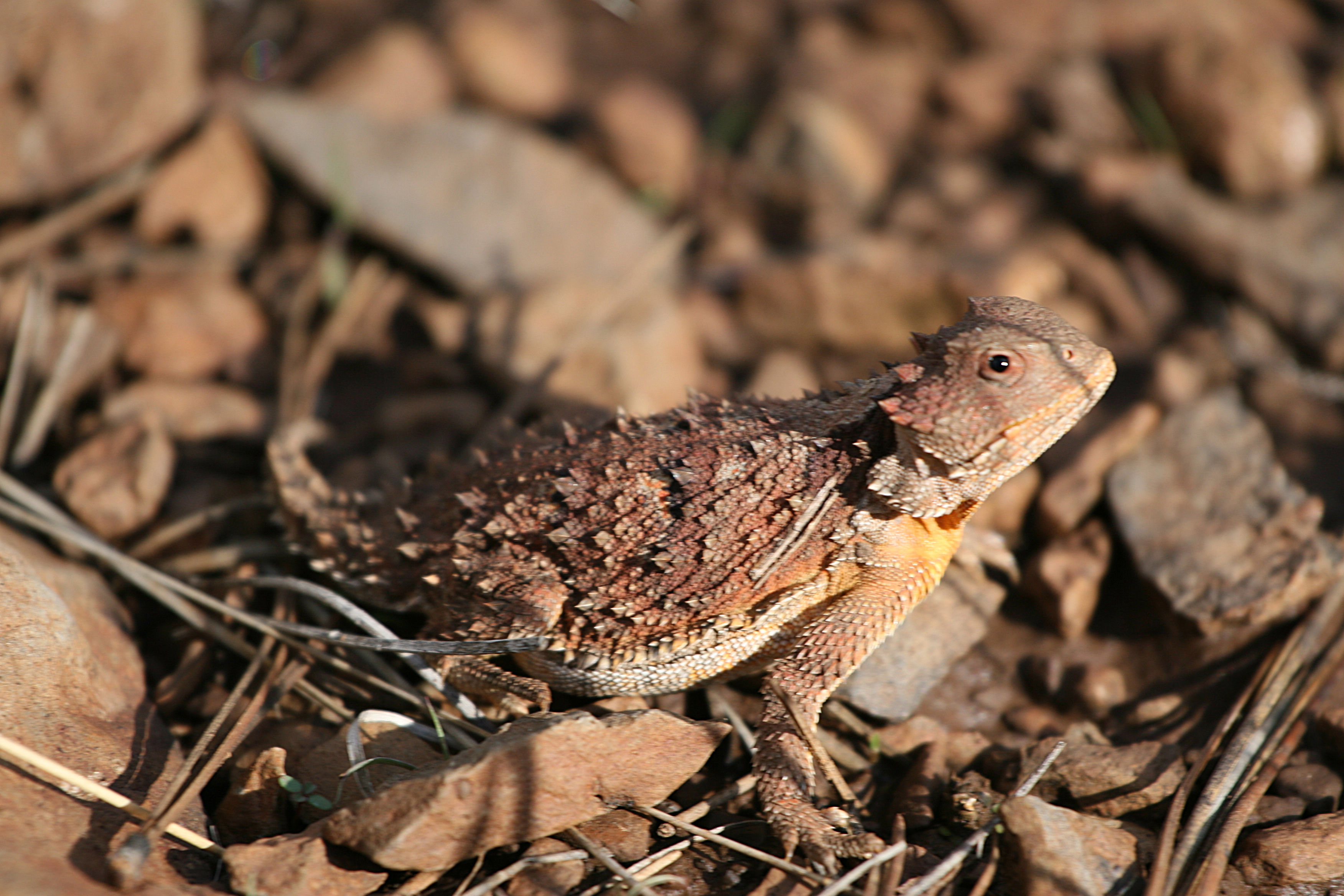 A Short Horned Lizard on the Kaibab National Forest. Please give credit to: U.S. Forest Service, Southwestern Region, Kaibab National Forest.